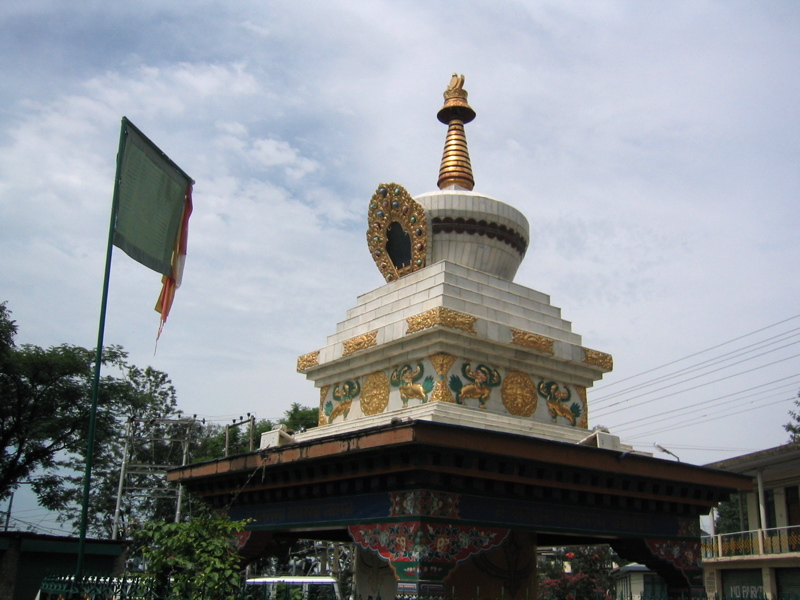 Stupa at Gangchen Kyishong, the area of the Tibetan Gov't in Exile.